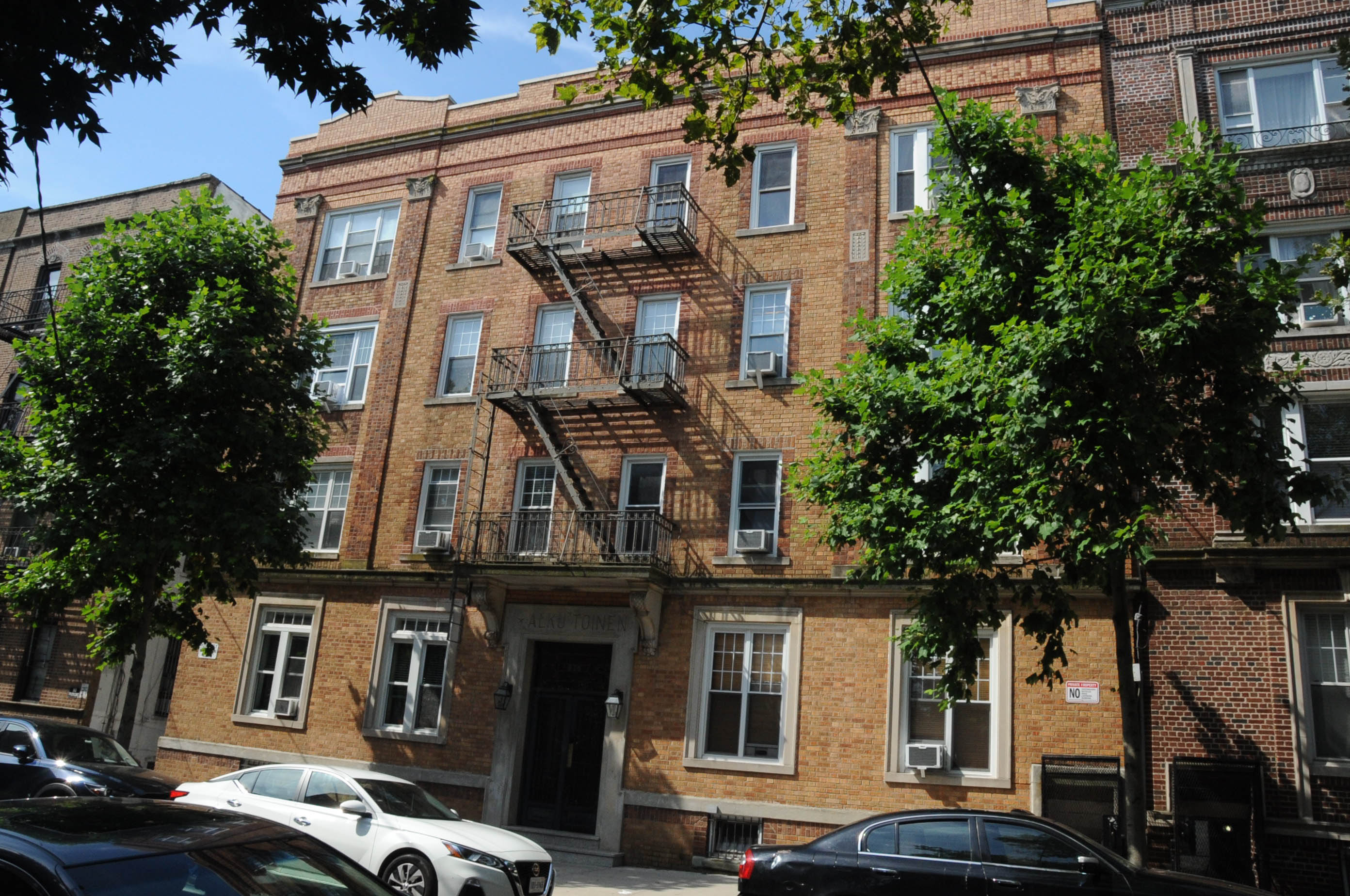 SUNSET PARK, BROOKLYN; IN 1916, 16 FAMILIES FORMED THE FINNISH HOME BUILDING ASSOCIATION AND BROKE GROUND ON TWO COOPERATIVE APARTMENT BUILDINGS, ALKU (MEANING “BEGINNING”), AND ALKU TOINEN (TOINEN MEANING “TWO”), THE NATION’S FIRST NON-PROFIT, COOPERATIVELY-OWNED APARTMENT BUILDINGS. THIS PICTURE IS OF ALKY TOINEN AT 823 43RD ST.